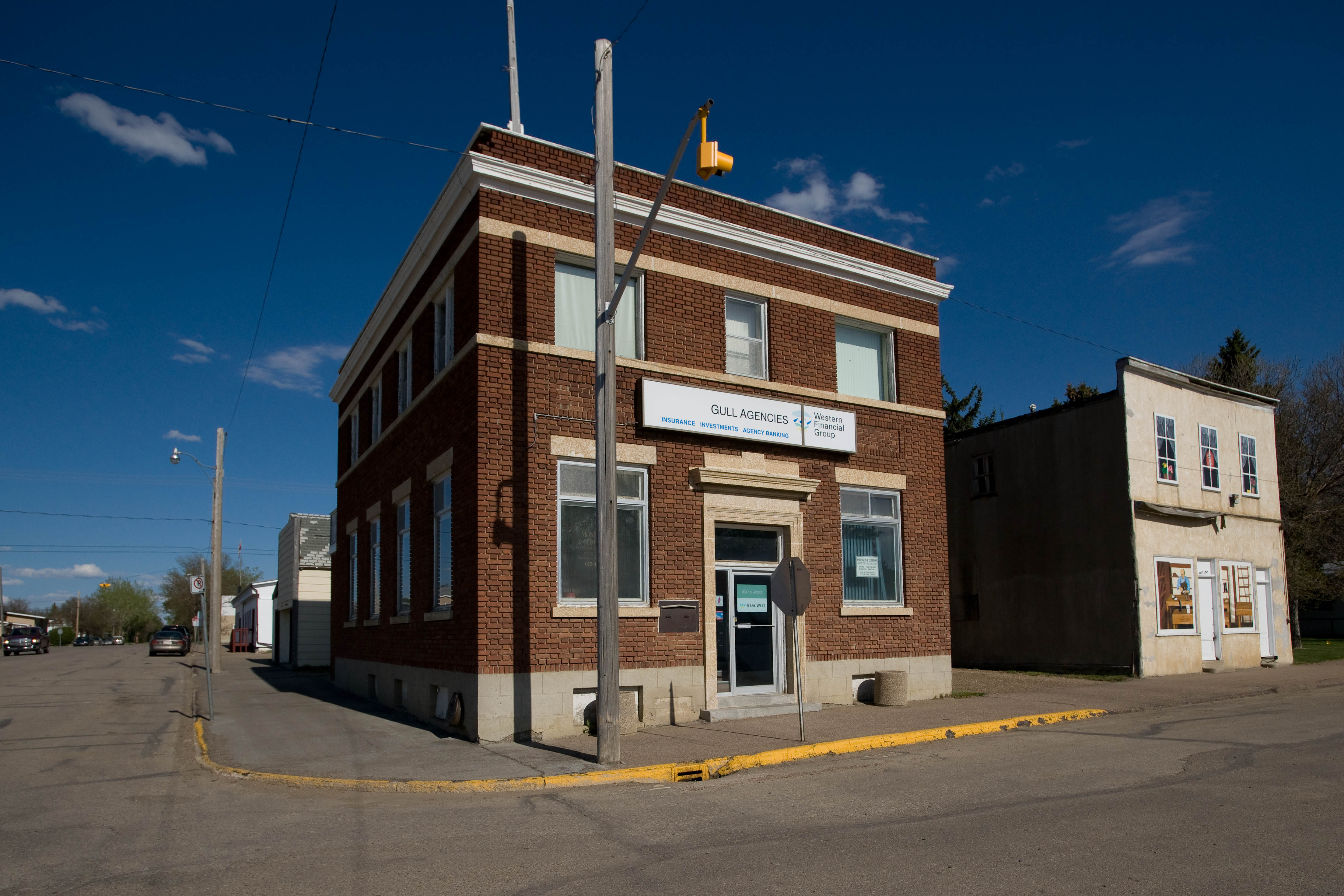 Buildings in the town of Gull Lake, Saskatchewan. From